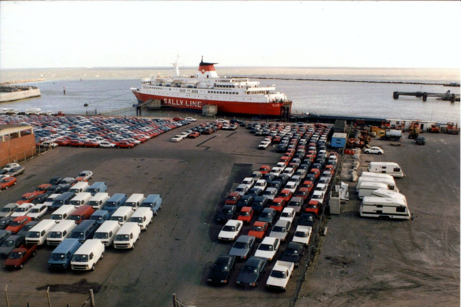 Sally Line Ramsgate to Dunkerque Ferry. See where this picture was taken. [?]